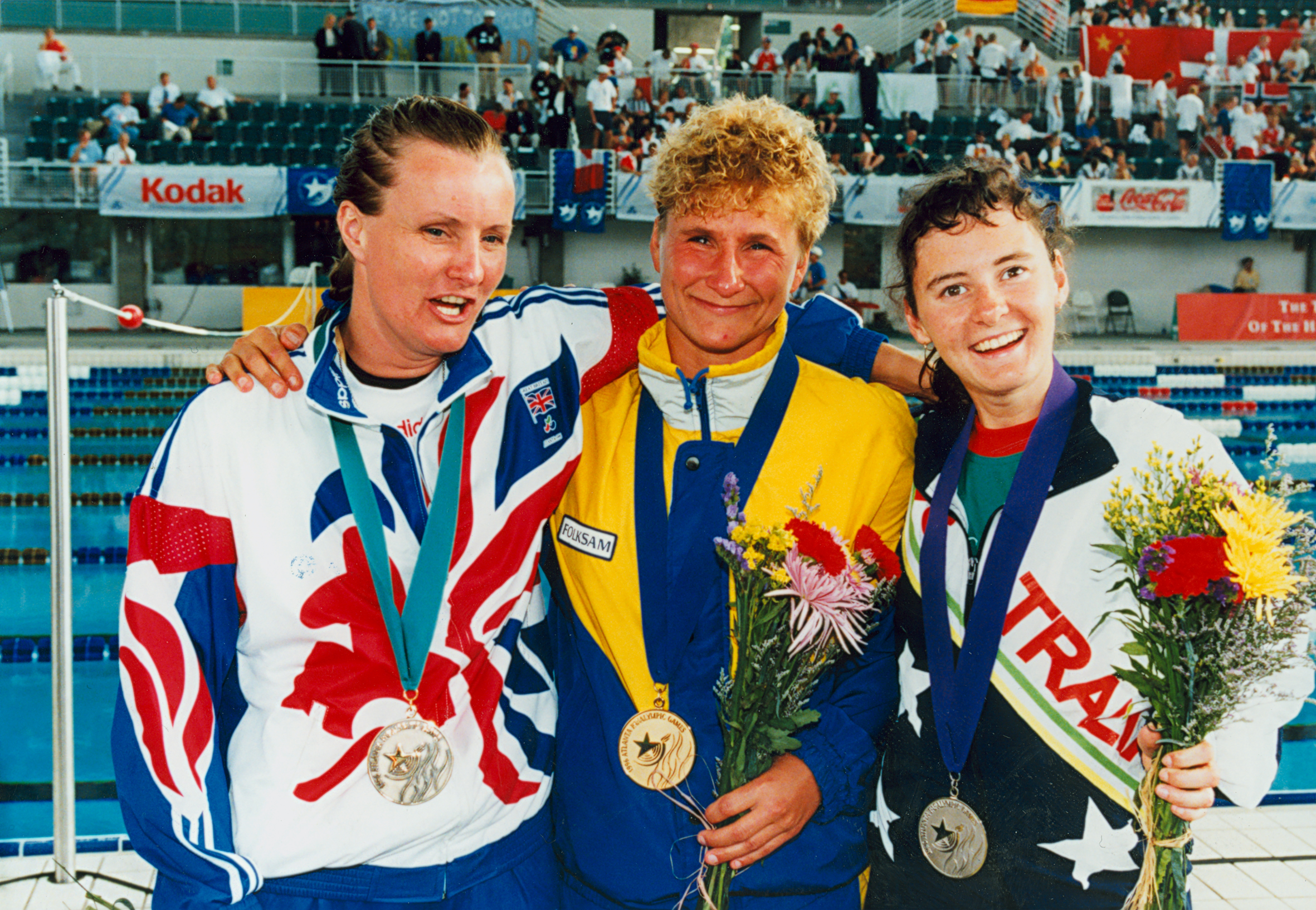 The medal winners of the 50m freestyle B1 category at the 1996 Summer Paralympic Games in Atlanta. From left to right Janice Burton of Great Britain (bronze), Eila Nilsson of Sweden (gold) and Tracey Cross of Australia (silver).